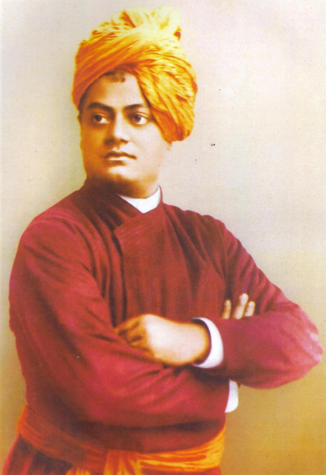 This image of Swami Vivekananda was taken by popular photographer Thomas Harrison in September 1893 in Harrison Studio, Chicago. This photographer had a studio at Central Music Hall. The pose of Vivekananda was later named as his "Chicago pose"... From this image of Harrison, Goes Lithography Company Ltd. made a colour poster which was circulated all over Chicago in 1893 (Source: Shankar see details in "Source" section below